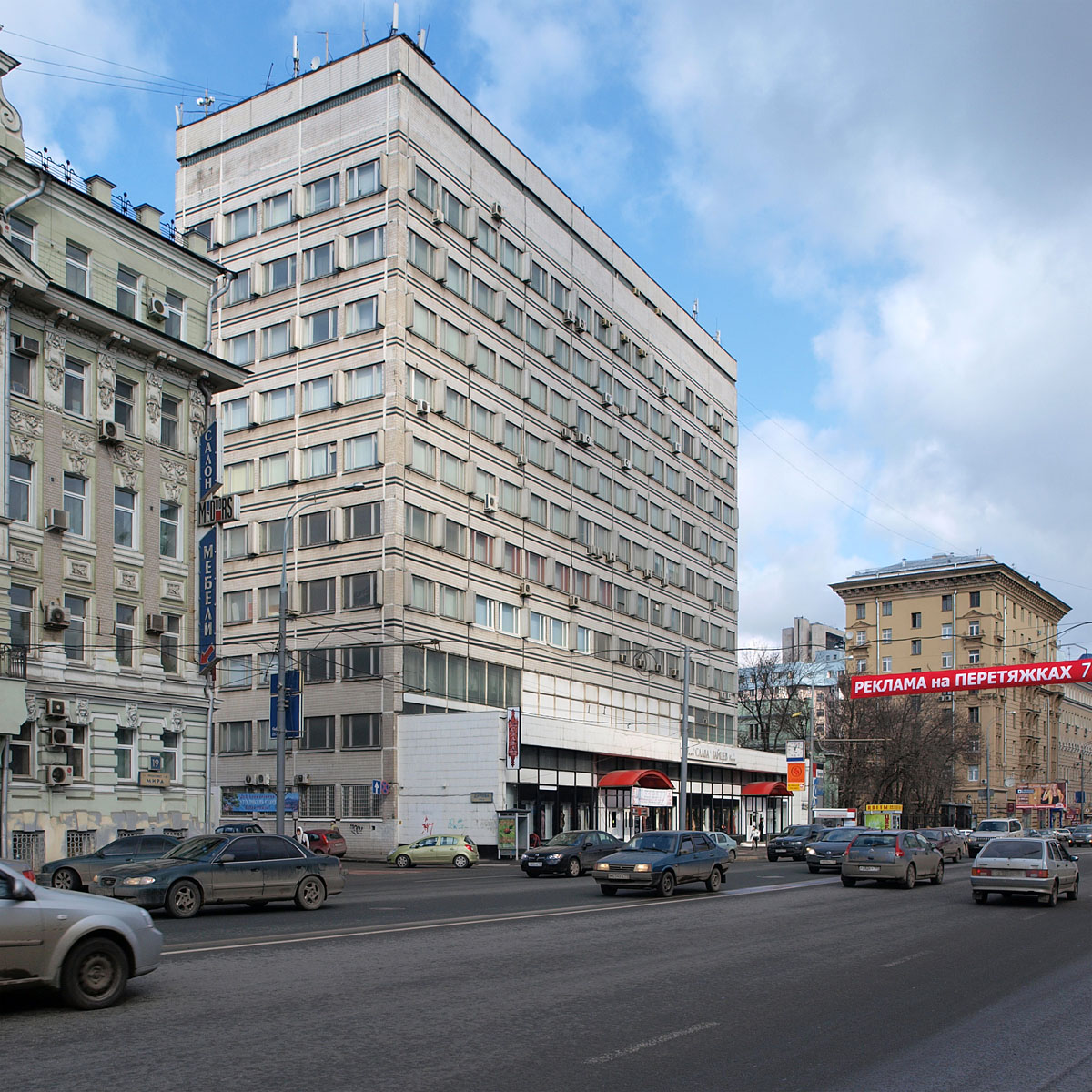 headquarters on Prospekt Mira, Moscow